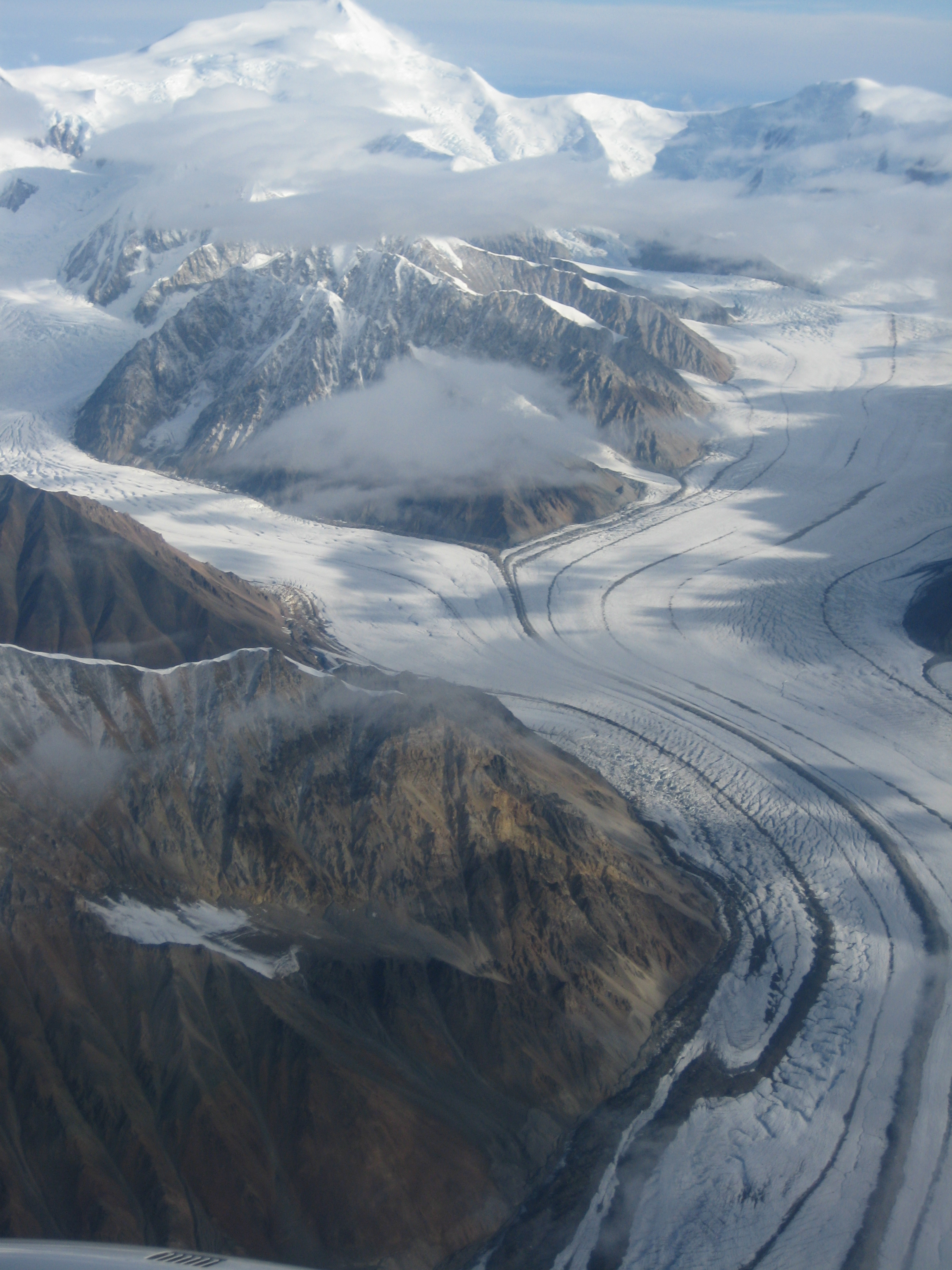 Glacier in Kluane National Park